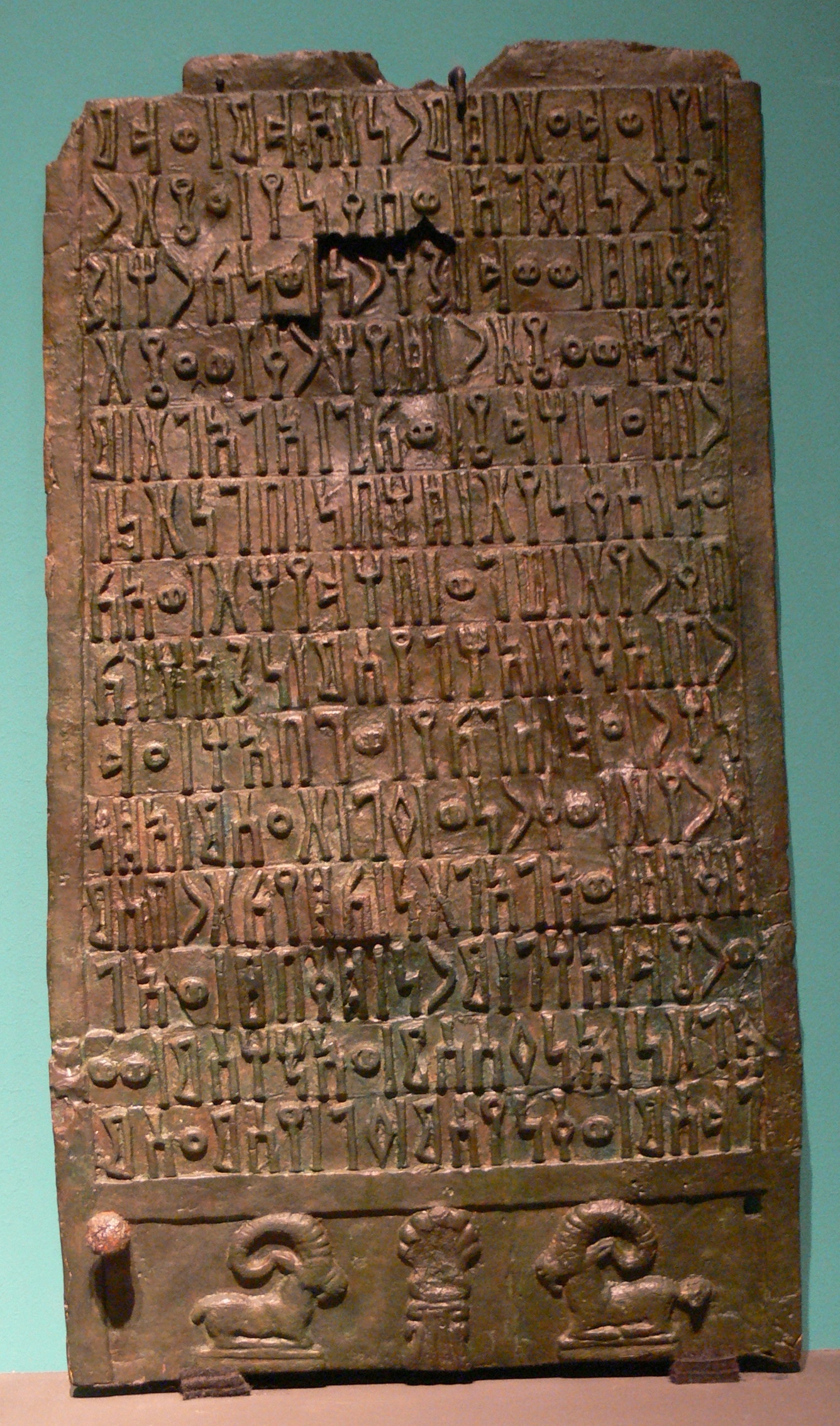 Pergamon Museum ( Berlin ). Exhibition "Roads of Arabia": Plaque with a Ma'inic inscription and two ibexes ( 1st century BC - 1st century AD ), bronze, 62x34 cm, from Qaryat al-Faw ( Department of Archaeology Museum, King Saud University, Riyadh ).